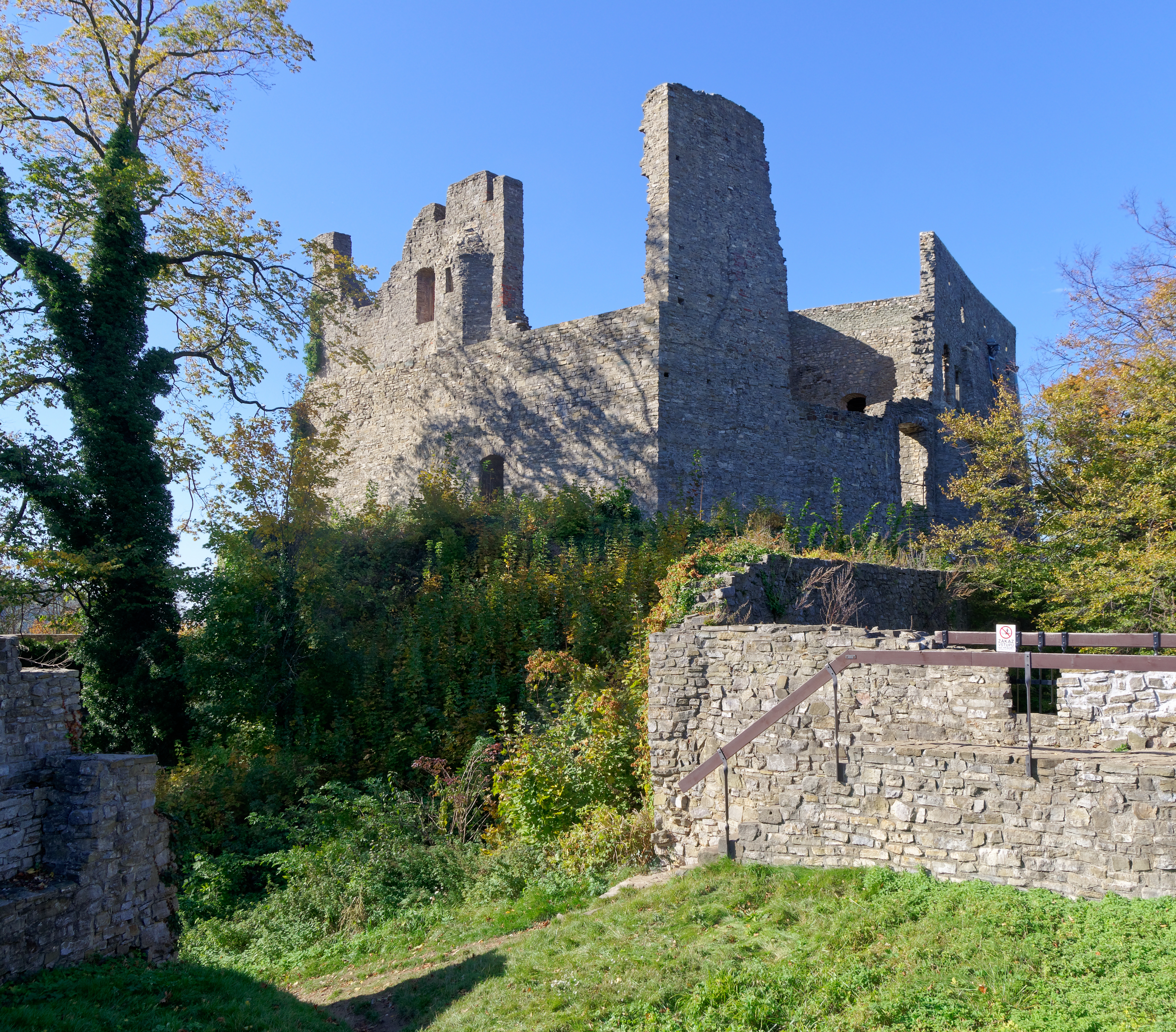 Hukvaldy Castle